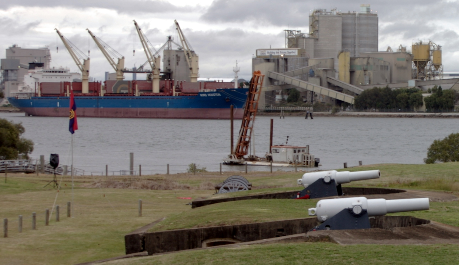 Cargo ship Nord Houston in port behind 64-pdr guns - History Alive! 2011, Fort Lytton, Brisbane, Australia.